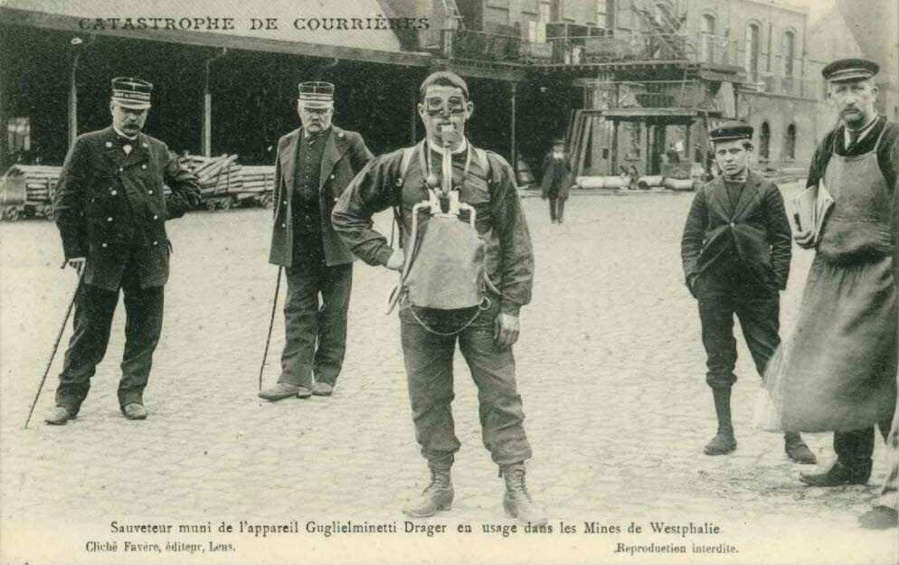 Courrières mine disaster, the tenth march 1906, in the towns of Billy-Montigny, Sallaumines, Méricourt and Noyelles-sous-Lens.